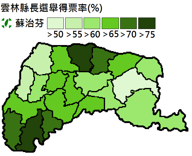 Yunlin Magistrate election 2009